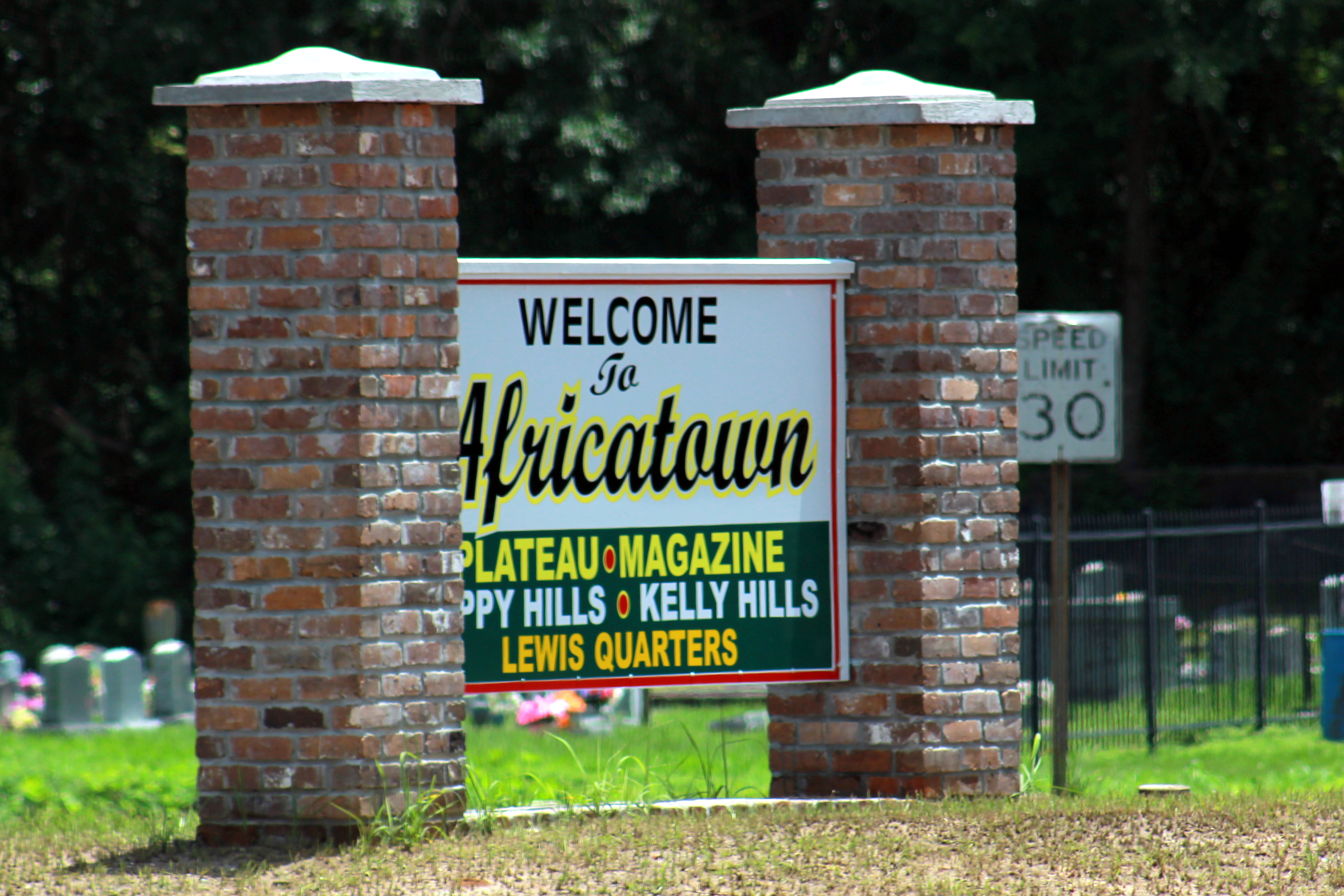 Welcome to Africatown sign located at the interesection of Bay Bridge Road and Bay Bridge Cutoff Road in Mobile, Alabama. The sign highlights several "neighborhoods" that are considered to be important parts of what was originally known as Africatown: Plateau, Magazine, Happy Hills, Kelly Hills, and Lewis Quarters. Located in Africatown, Mobile, Alabama. This site is along the African-American Heritage Trail of Mobile.